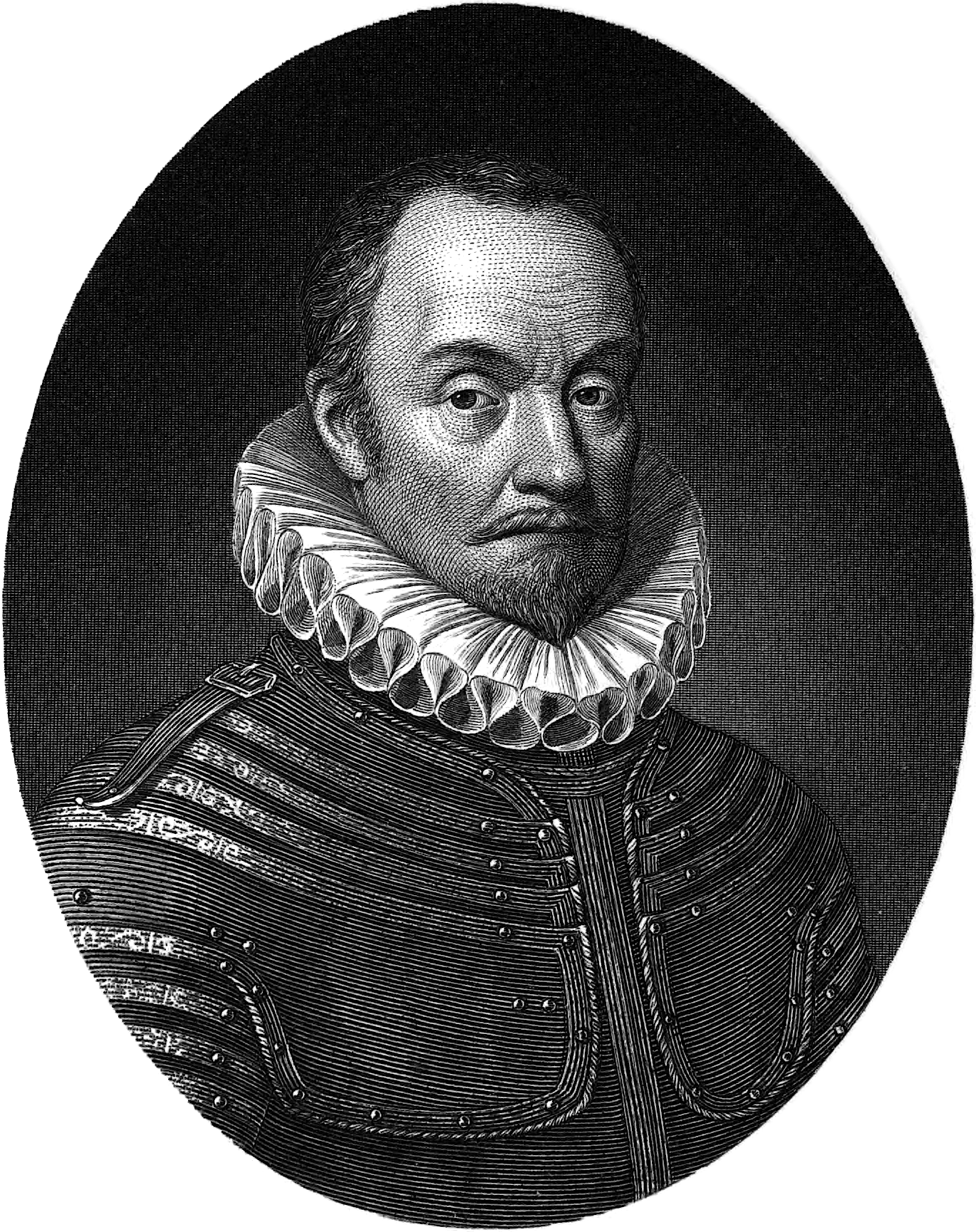 An engraving of William of Orange by Stephen Alonzo Schoff as it appears in the 1897 edition of The Rise of the Dutch Republic by John Lothrop Motley, Volume 1. Written beneath it are the words, "Engraved by S.A.Schoff 1857, After an Engraving by Delphius of a portrait by Cornelius Vischer."